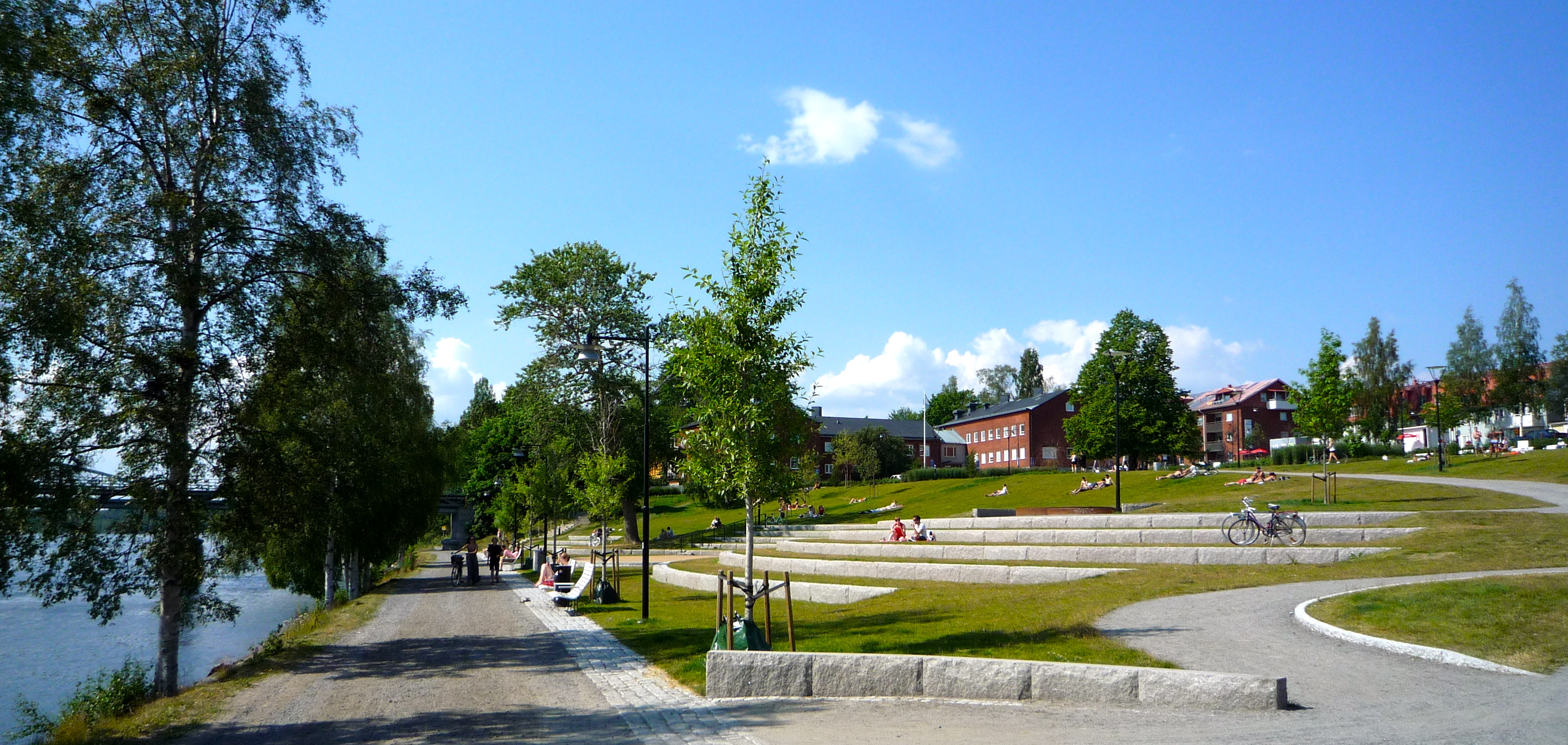 Broparken in central Umeå, from the River Walk (Strandpromenaden)